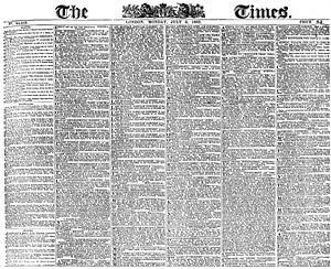 The London Times